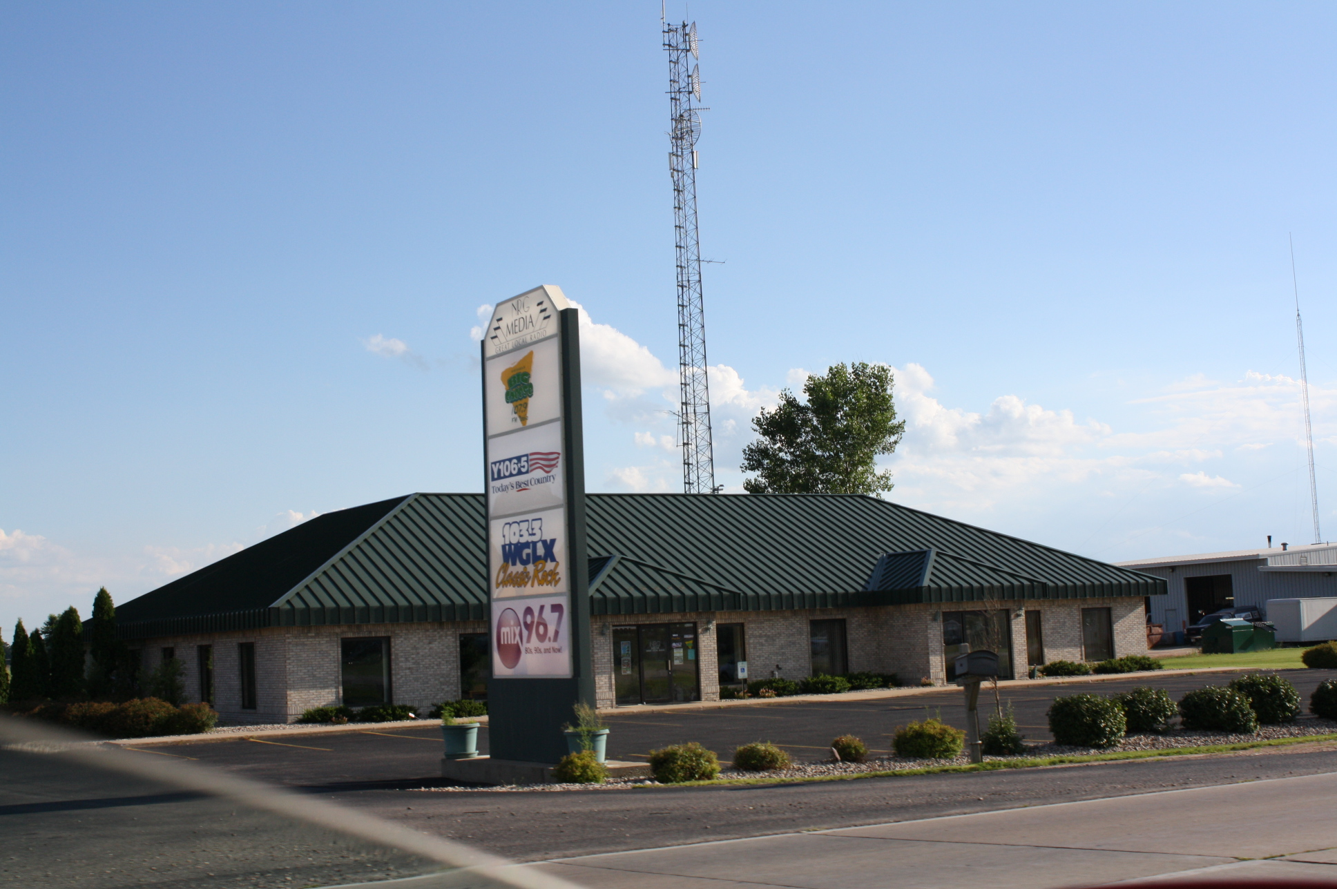 Looking west at the NRG radio studios in Plover, Wisconsin, used by WBCV, WGLX, WYTE, and WLJY.